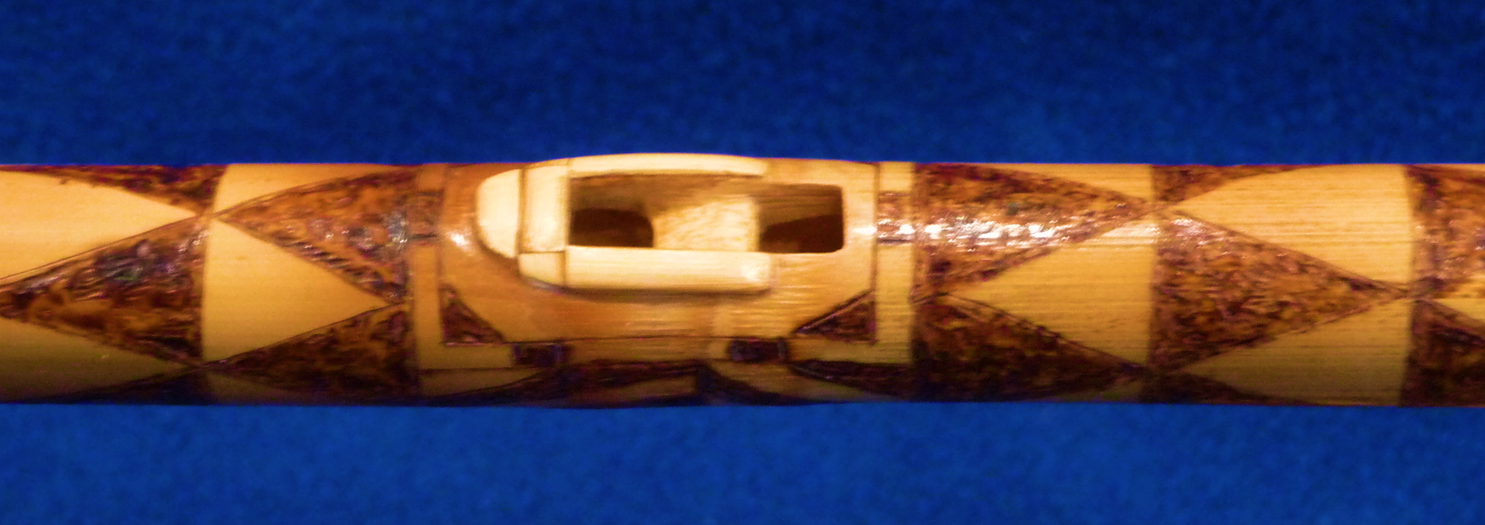 Detail of the nest area of a flute crafted by Pat Partridge in 2006. This flute is in the style of flutes of the Tohono O'odham culture. Photo taken July 6, 2010. Collection of Clint Goss. The ridge on the sides of the sound mechanism were added by Pat Partridge to improve playability and are not found on authentic Tohono O'odham flutes.